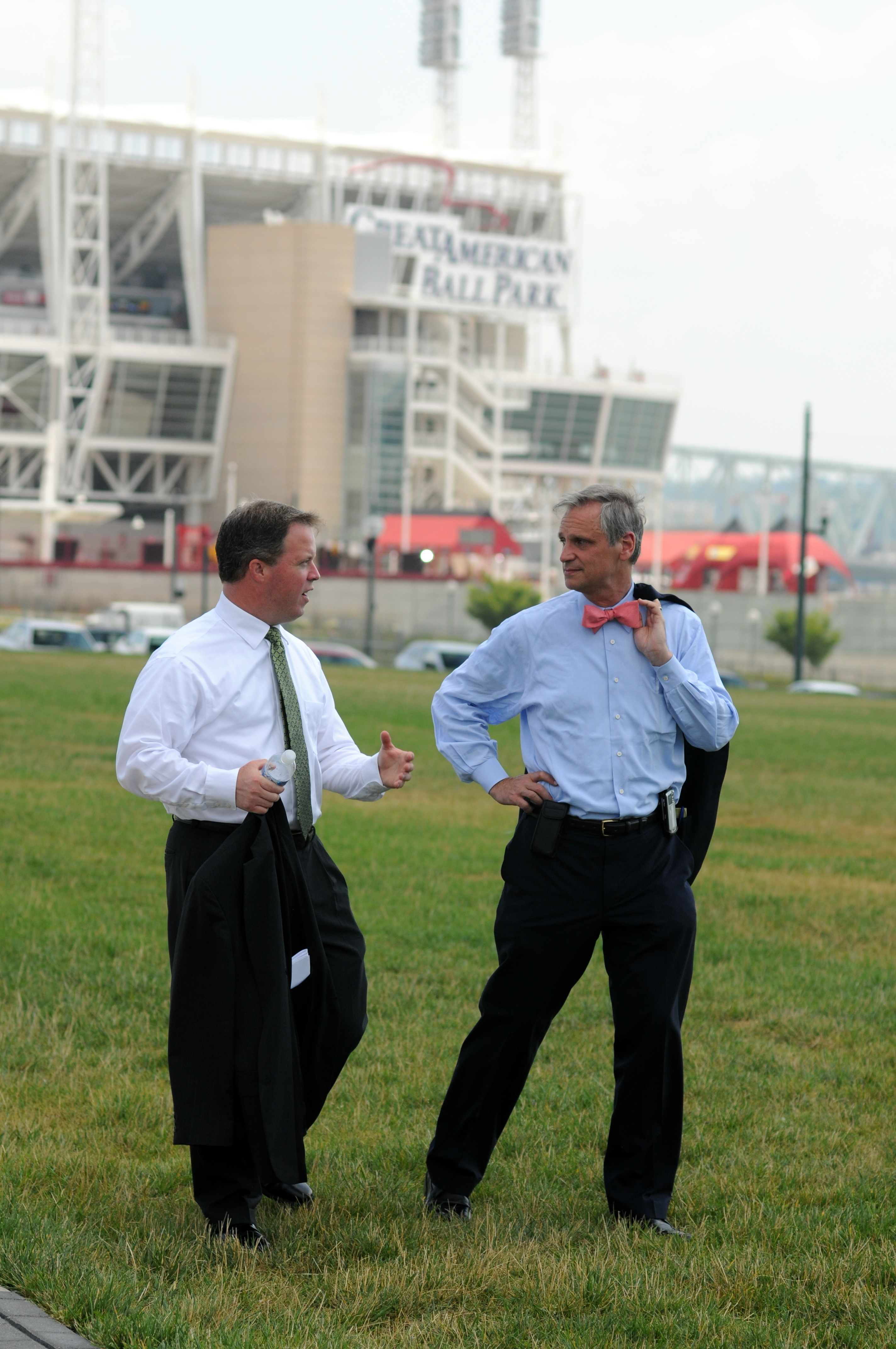 Rep. Steve Driehaus out on the campaign trail